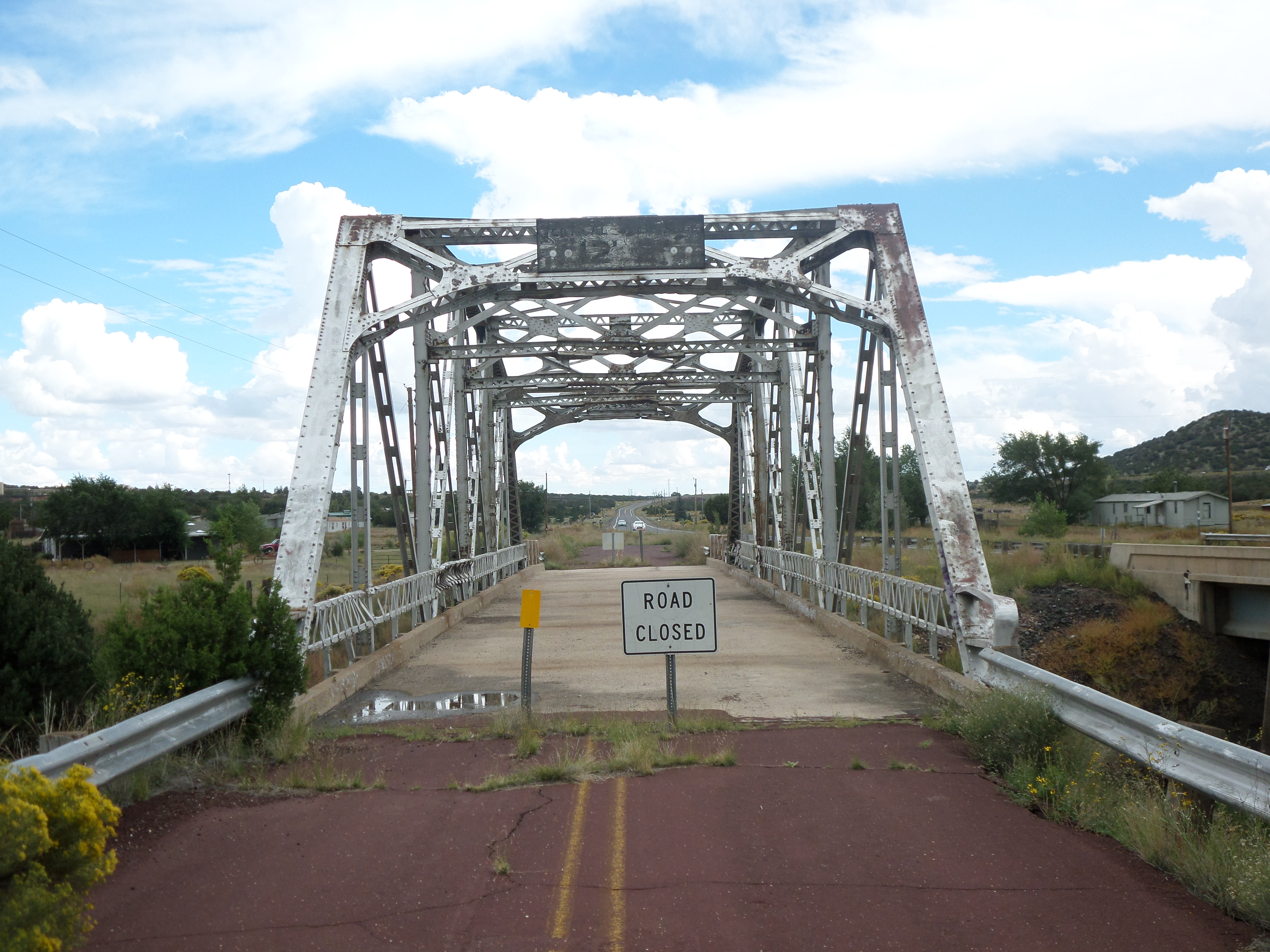 Route 66: don't forget Winona!